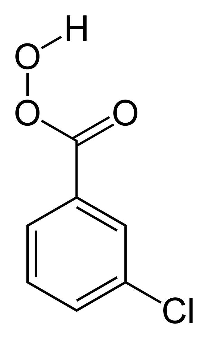 Skeletal formula of the meta-chloroperoxybenzoic acid molecule, C7H5ClO3. Structure calculated with Spartan Student 4.1, using the Hartree-Fock 6-21G* setting. Structure drawn in ChemDraw Ultra 11.0.